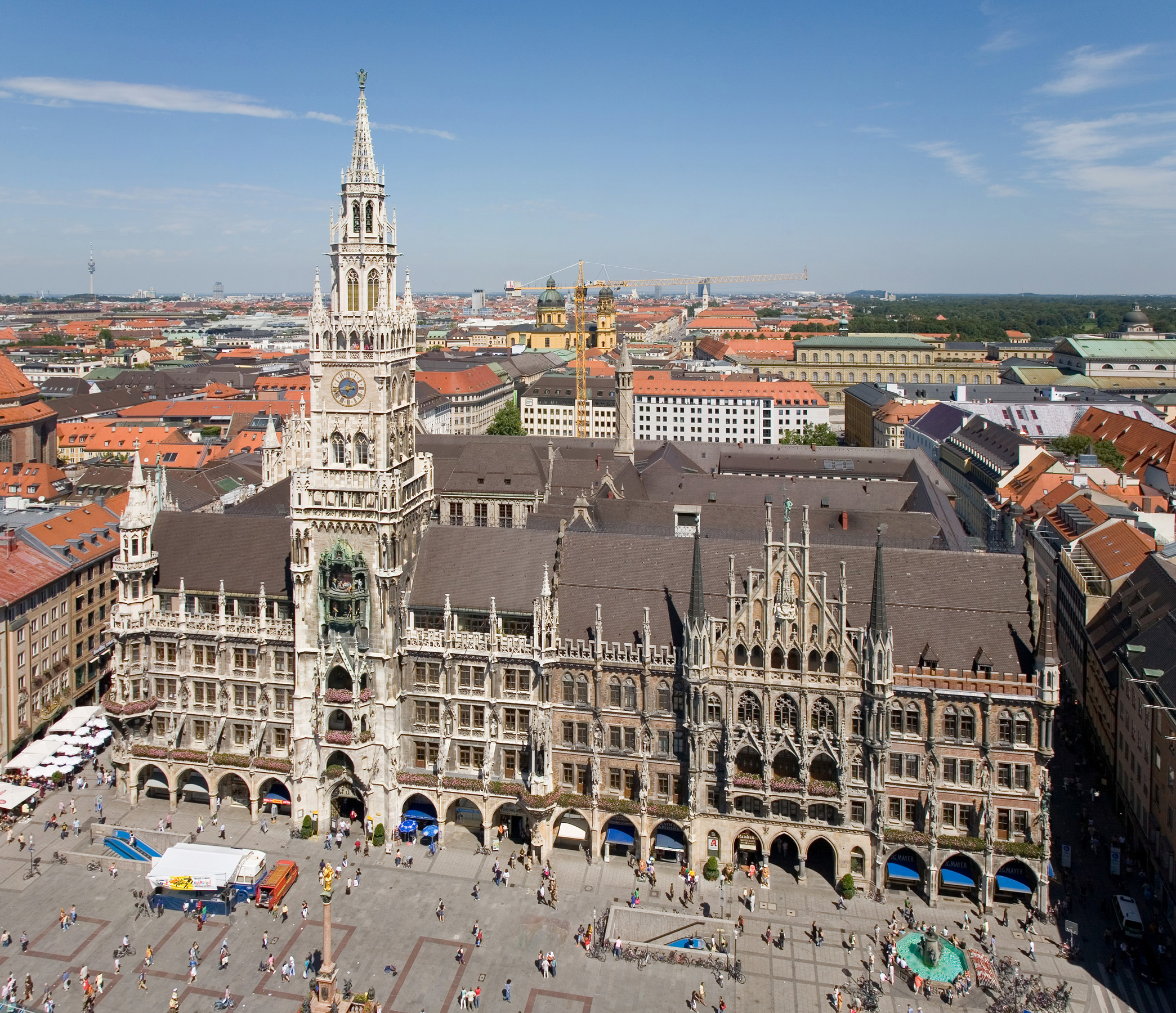 The Rathaus and Marienplatz from Peterskirche in Munich, Germany. Taken by myself with a Canon 5D and 24-105mm f/4L IS lens.